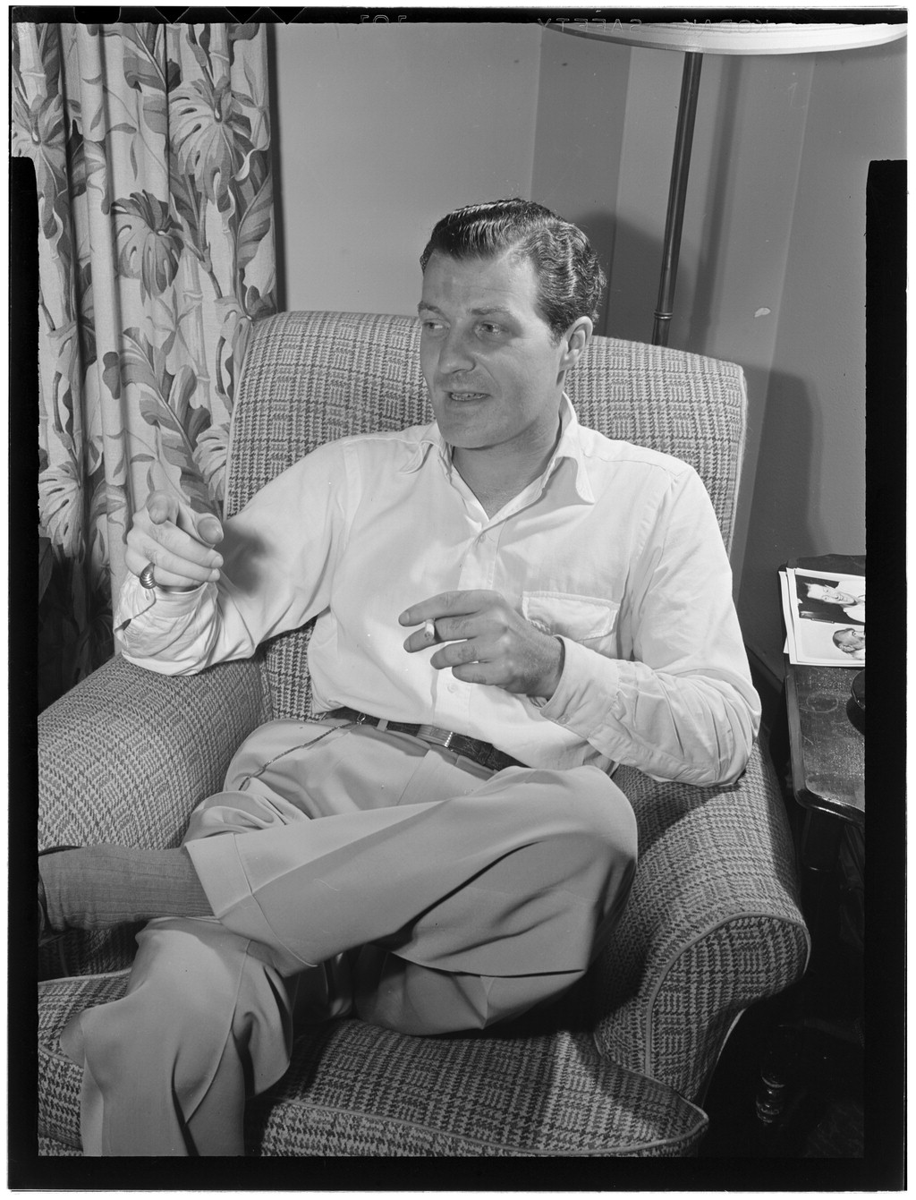 Charlie Barnet, New York, N.Y., ca. August 1946 (Photograph by William P. Gottlieb)